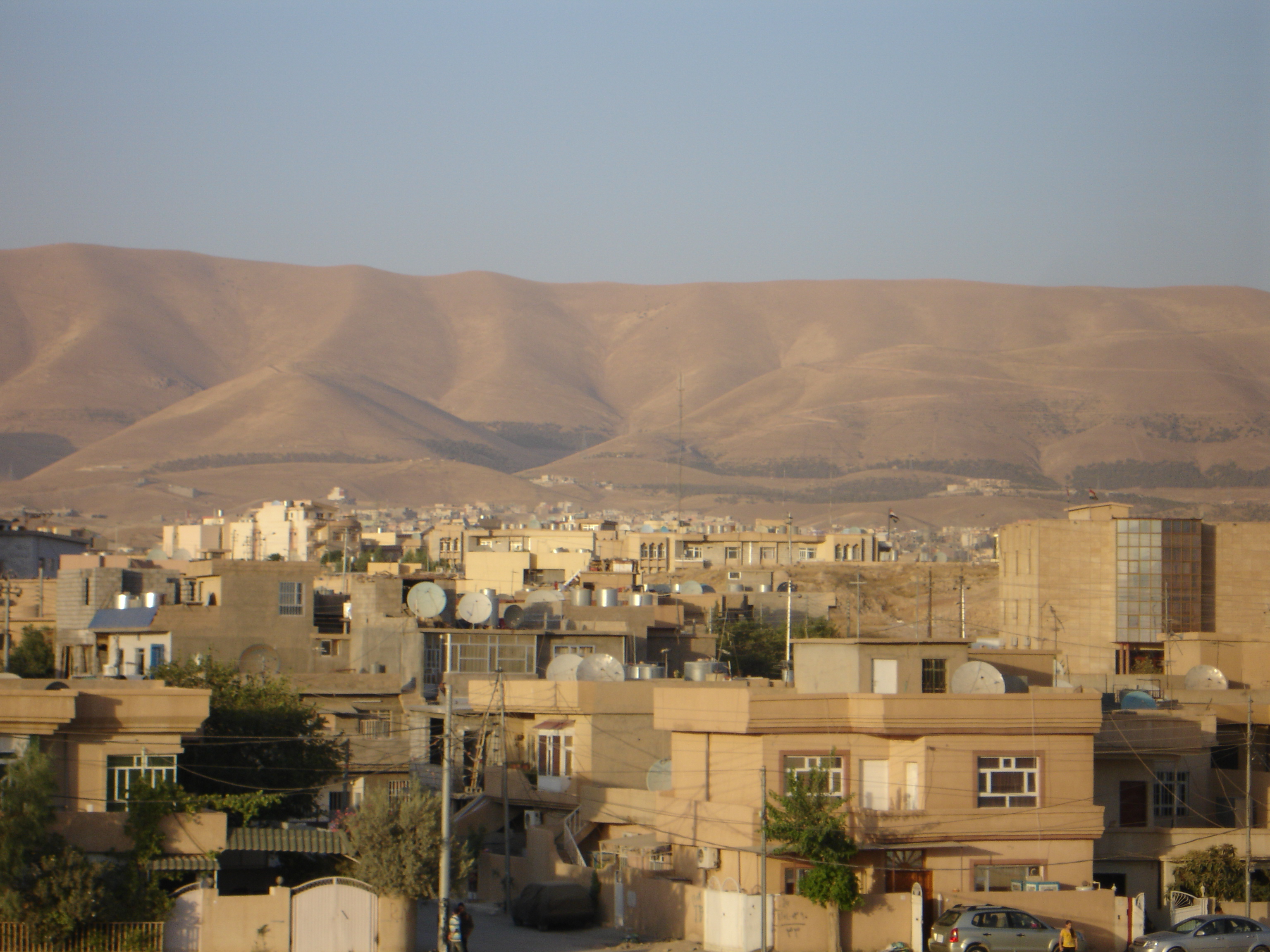 Sulaymaniyah city This Picture was taken in Kurdistan.